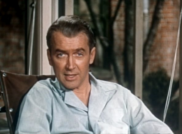 Cropped screenshot of James Stewart from the trailer for the film Rear Window